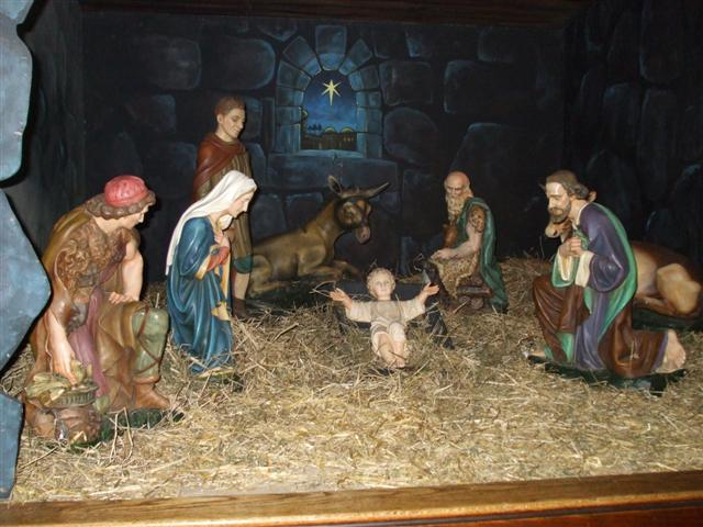 Crib Scene, Sacred Heart Church, Omagh. It is located here 53556.